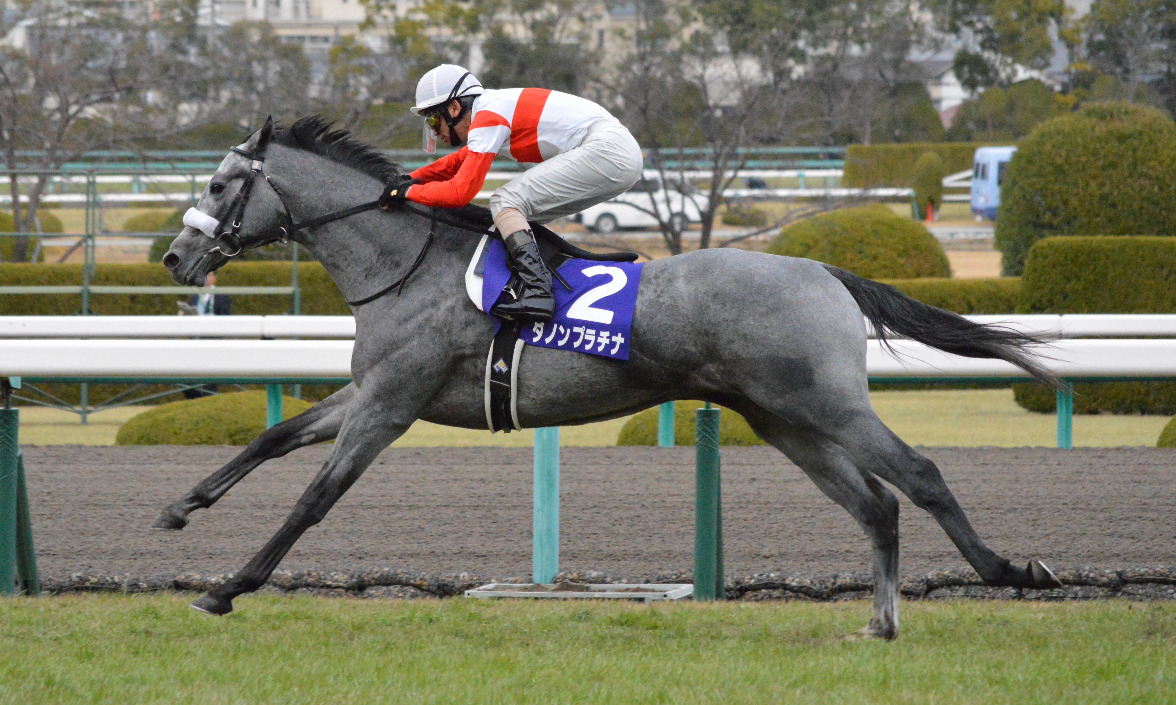 Japanese race horse Danon Platina at Hanshin racecourse. Hanshin (JPN) 21 Dec 2014Asahi Hai Futurity Stakes (Grade 1) (2yo Colts & Fillies) (Turf) (2yo) 1m Good RankHorse NameOddsAgeWgtJockeyTrainer1stDanon Platina (JPN)18/5FC28-9Masayoshi EbinaSakae Kunieda2ndArma Waioli (JPN)64/1C28-9Masaki KatsuuraKatsuichi NishiuraOthers are omitted. (18 horses entered in a race.)